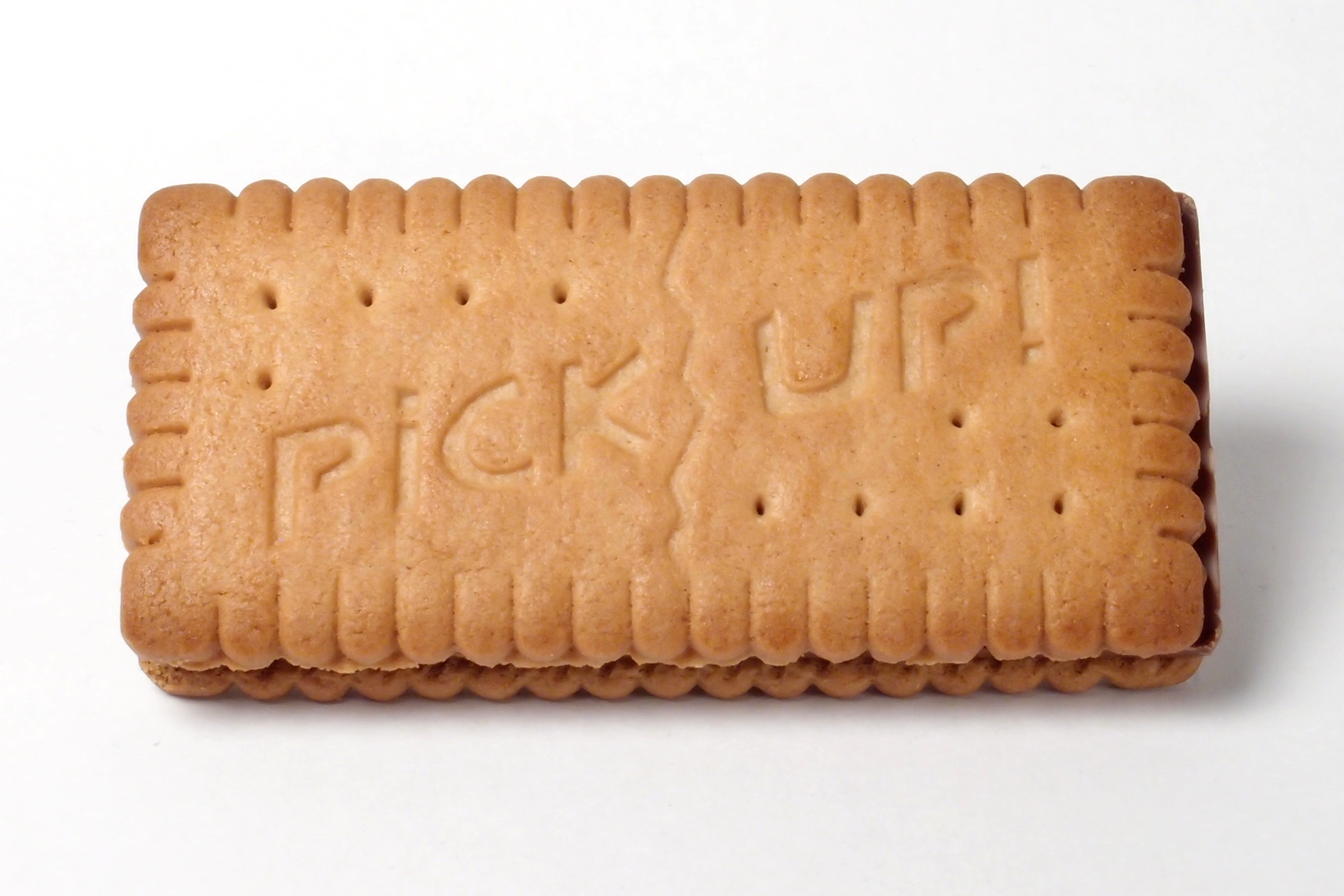 The Leibniz PiCK UP! bar, a bar-shaped biscuit sandwich with a solid chocolate centre made by German baking company Bahlsen under its Leibniz umbrella brand. This is the original, “classic” variety with two butter biscuits and a massive, unfilled milk chocolate centre.